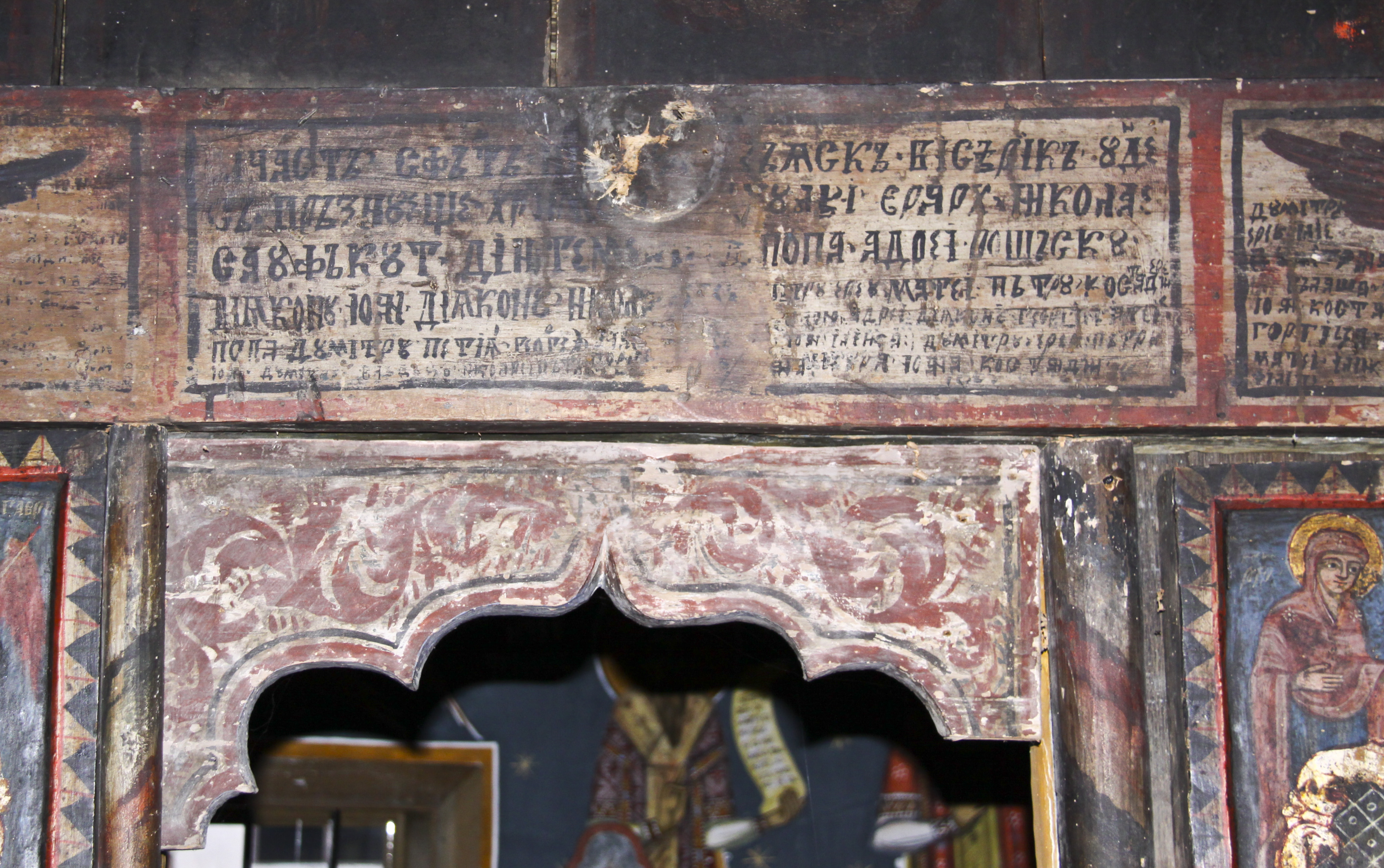 Valea Mare (Berbeşti), Vâlcea county, Romania: the wooden church.